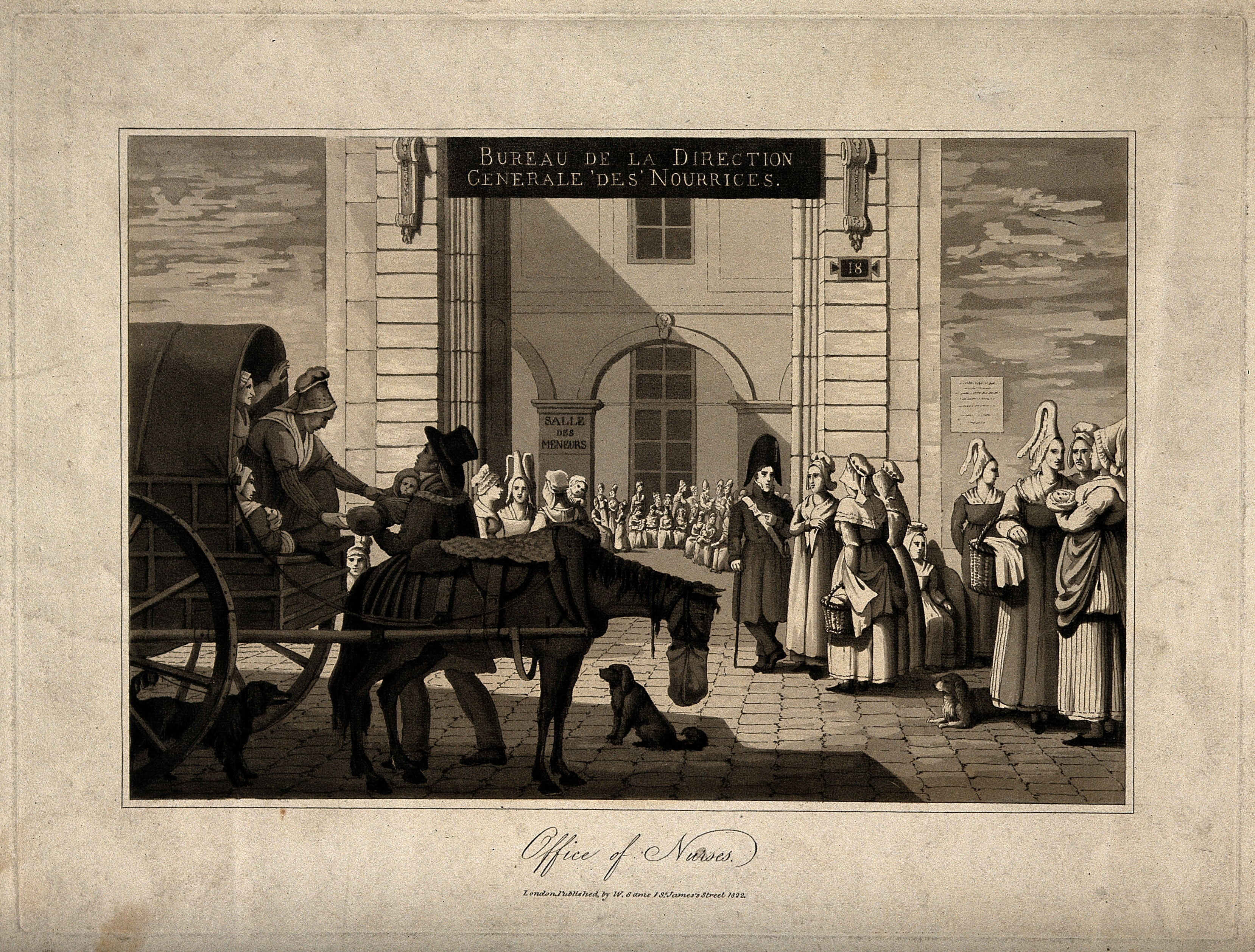 The bureau of wet nurses in Paris - wet nurses waiting to be selected. Iconographic Collections Keywords: Bureau de la Direction Generale des Nourrices (Paris (France))